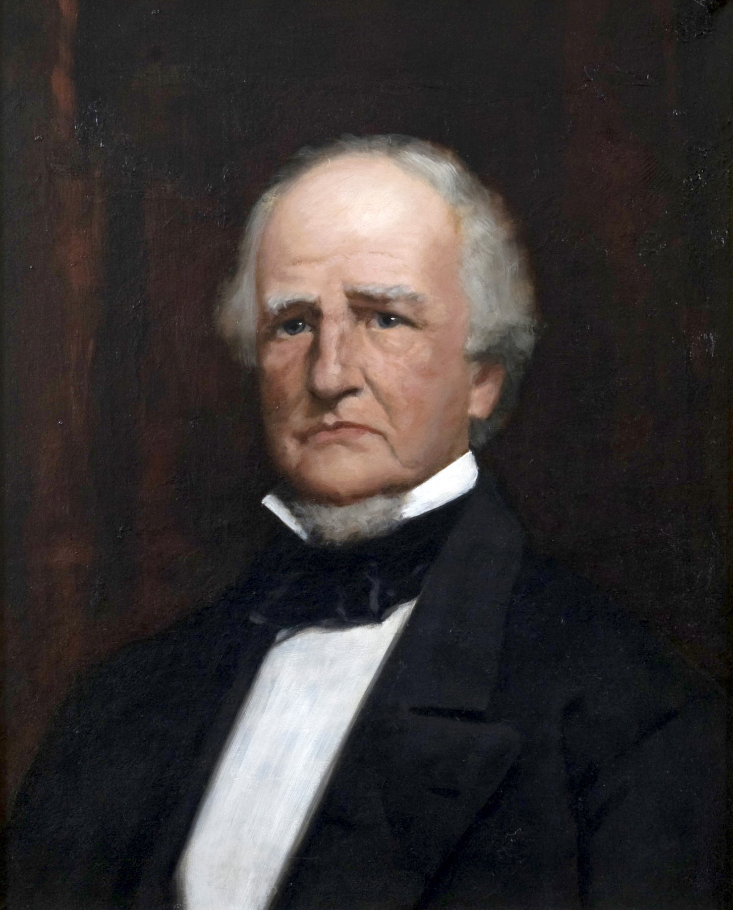 Benjamin Chew Howard, US Representative from Maryland